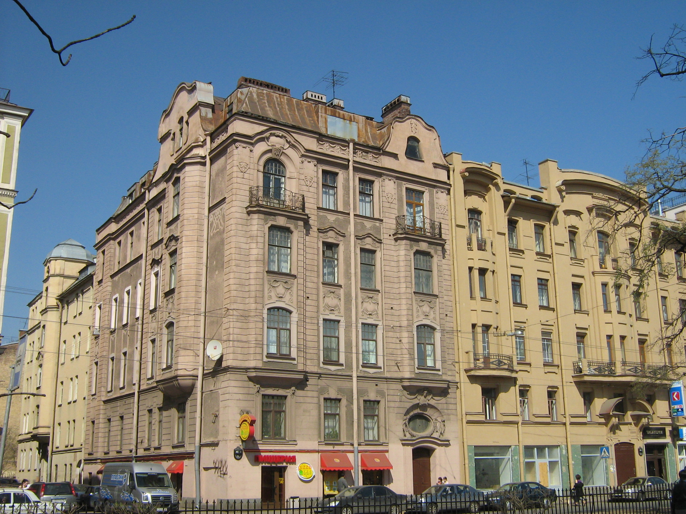 61, Kronwerksky Prospekt / 28, Lizy Chaikinoi Street (Saint-Petersburg) (built in 1901-1902).